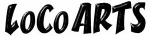 Logo of "Loco Arts", a TV production company of Argentina.